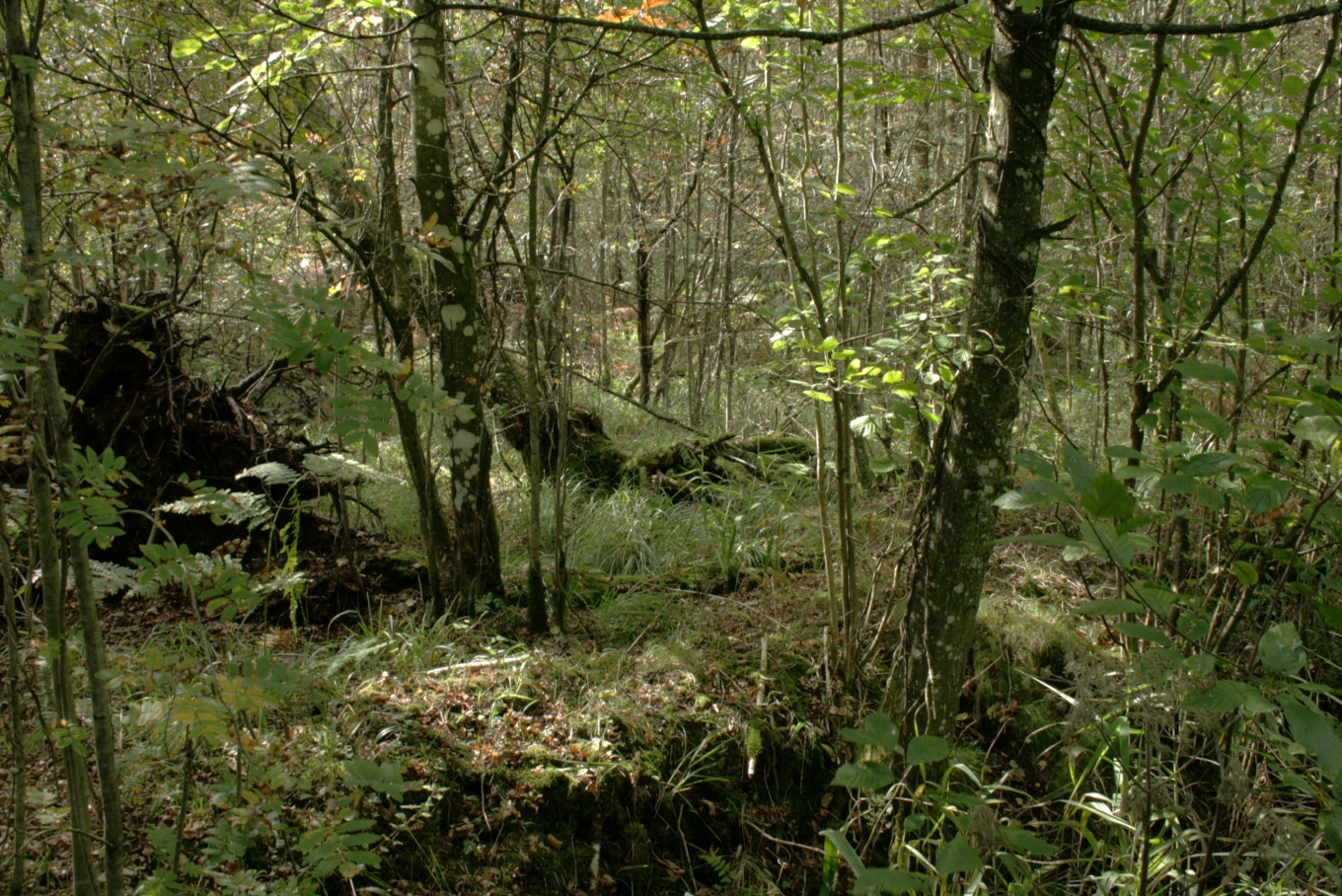 Draved Skov is one of the few Danish natural forests. This is a section where young forest is being built up spontaneously.